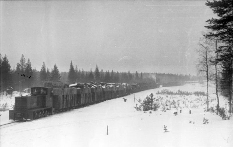 Information added by Wikimedia users.Location is a light railway Hyrynsalmi-Kuusamo in northern Finland. Railway (178 km) was built by Germans during 1942-1944, demolished 1944. Locomotive is a German Heeresfeldbahnlokomotive HF130C.